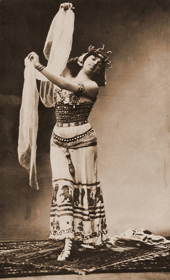 Solomiya Krushelnytska as Salome in Salome by Richard Strauss.